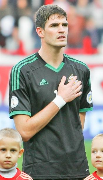 Kyle Lafferty representing Northern Ireland against Russia in FIFA World Cup qualifier in 2012.